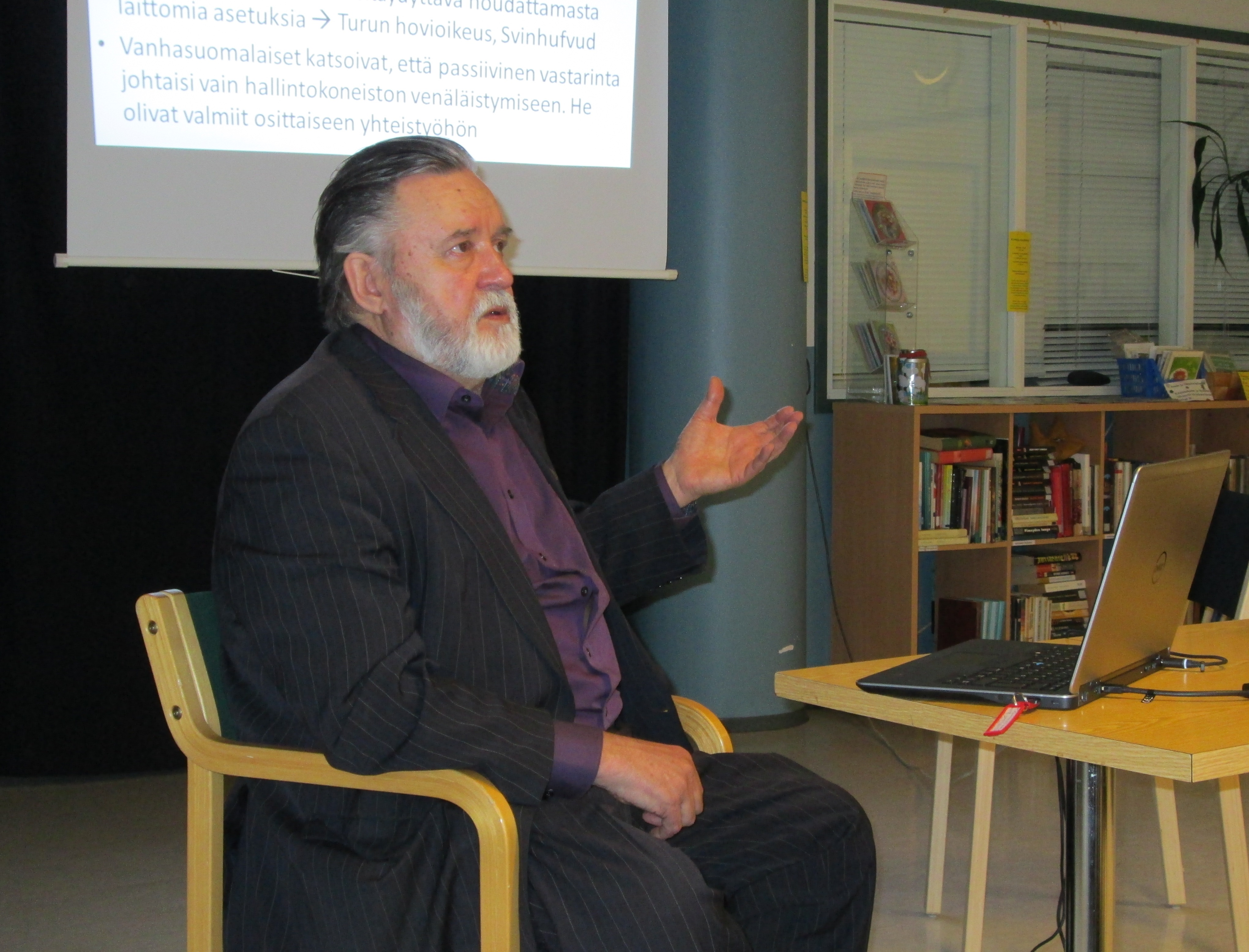 Finnish professor and historian Timo Soikkanen in Turku in 2014.